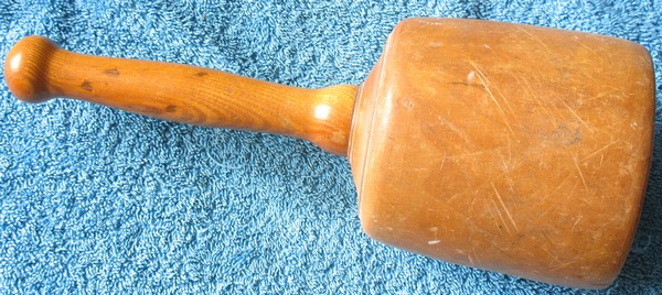 Mallet This file was made by B. M. Askholm, Please credit this: B. Askholm foto, april 2006. An email to B. Mathias at baskholm(--) would be appreciated too.